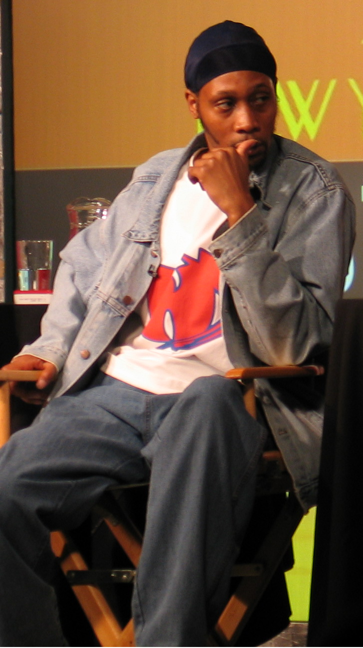 RZA at The New Yorker.